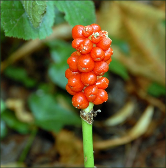 Lords and ladies Lords and ladies berries beside Clandeboye Avenue.